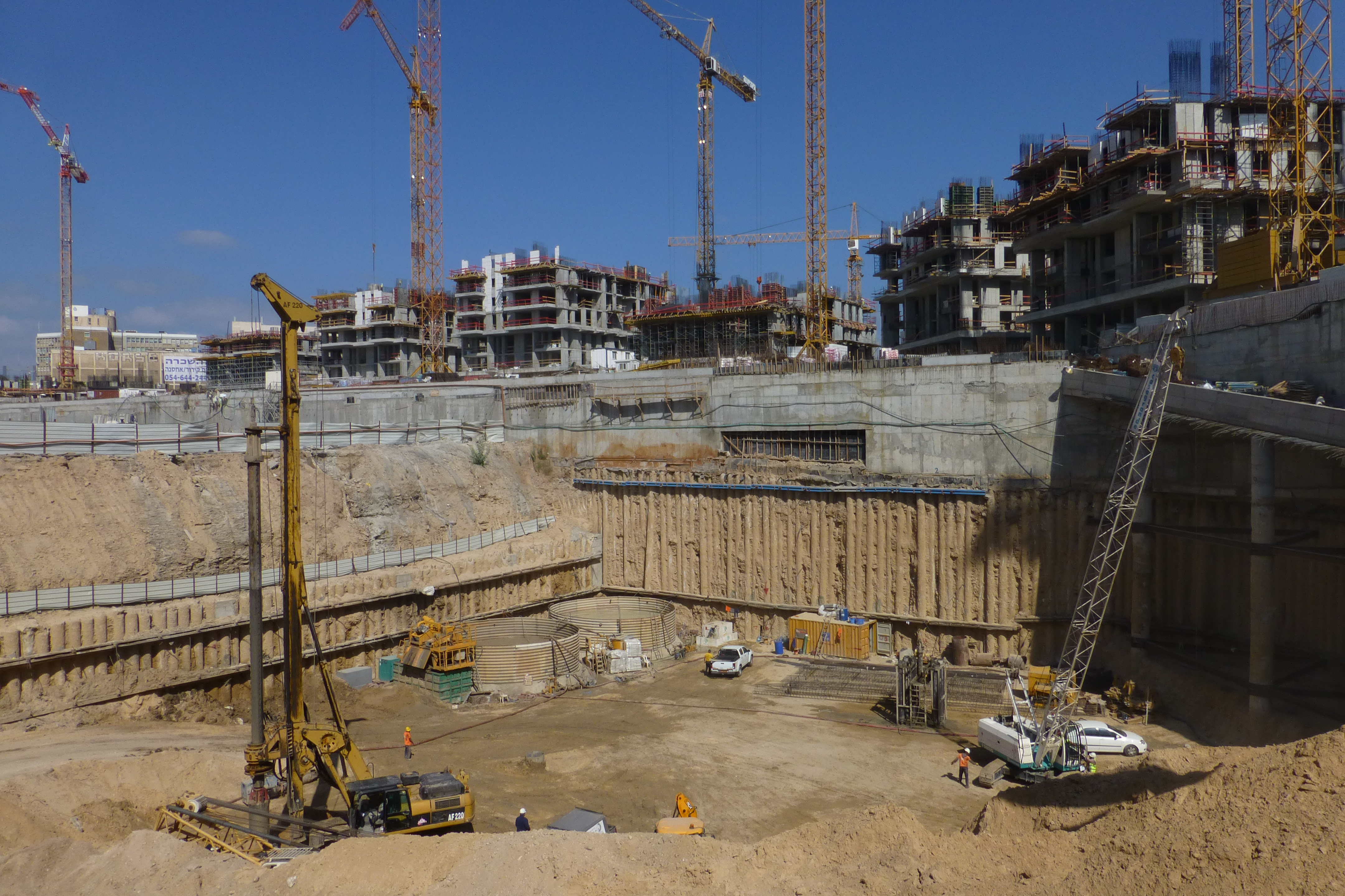 Begin Road, Tel Aviv-Yafo